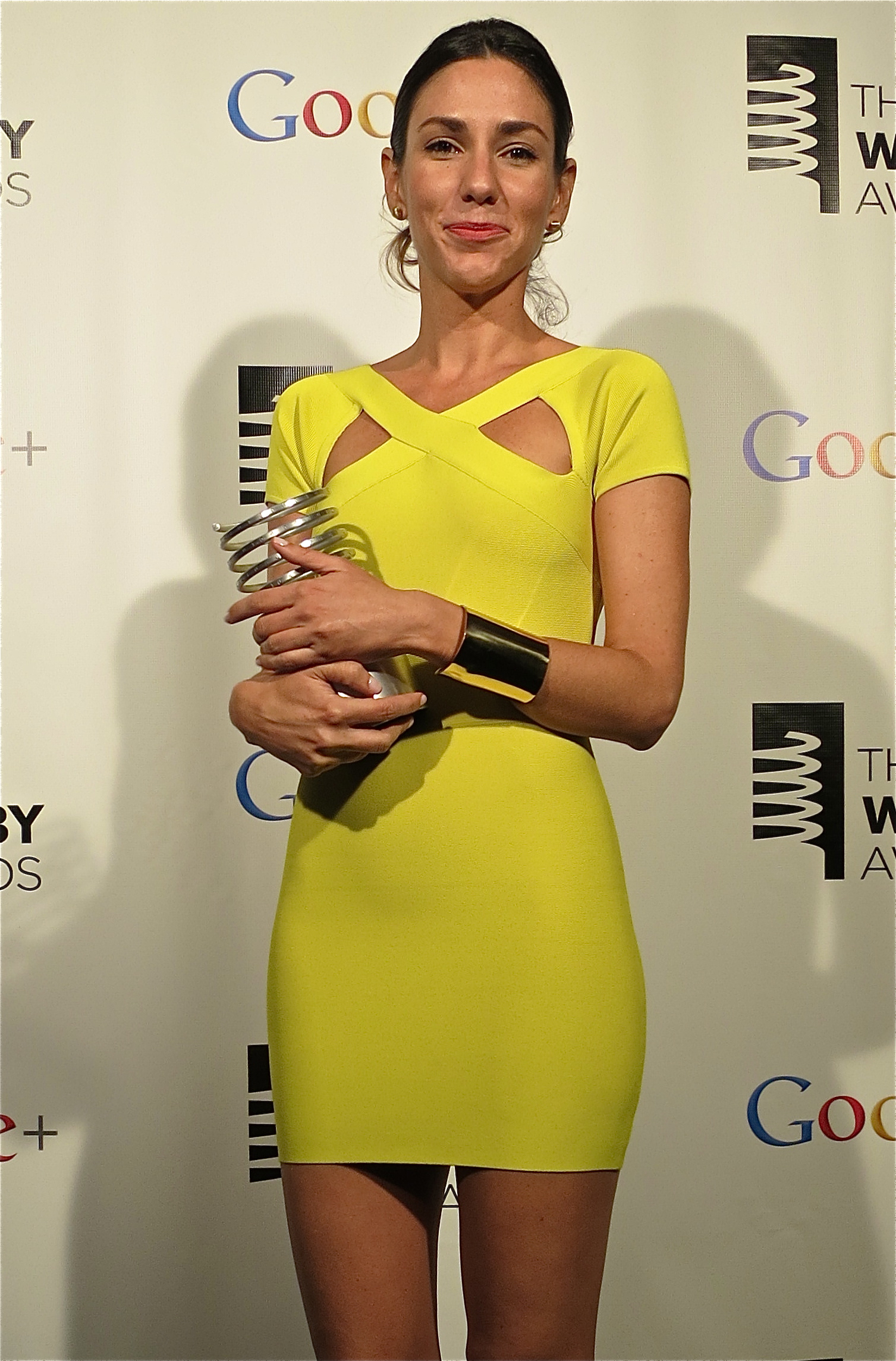 Sonia Gil receives the 2012 Webby Award for Web Personality of the Year.